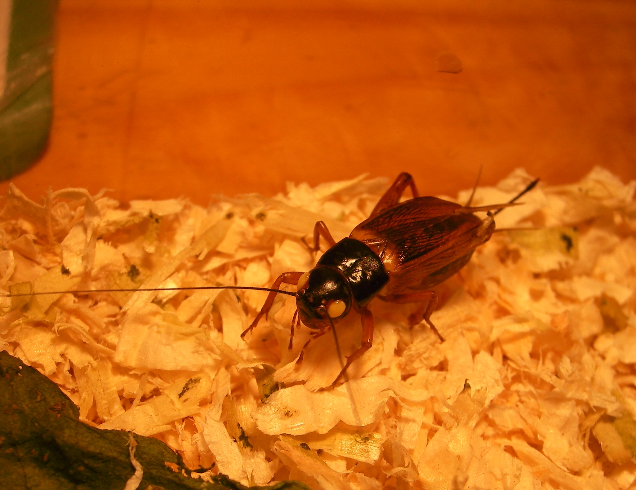 Gryllus bimaculatus; white eyed, female.